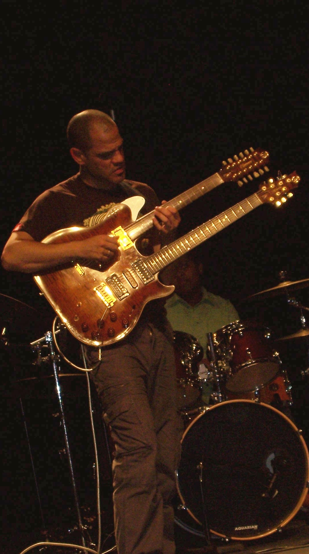 fuze